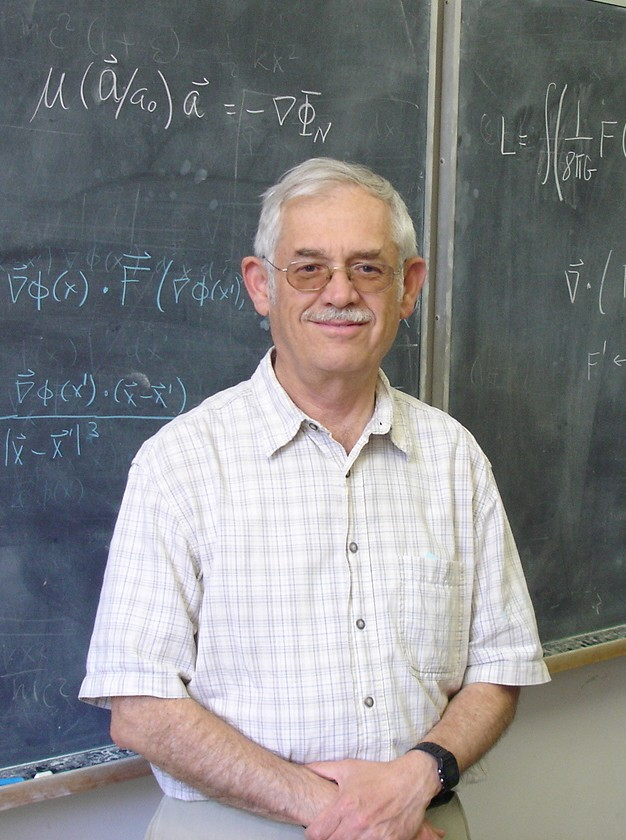 Picture of Jacob D. Bekenstein in his office at the Hebrew University in Jerusalem